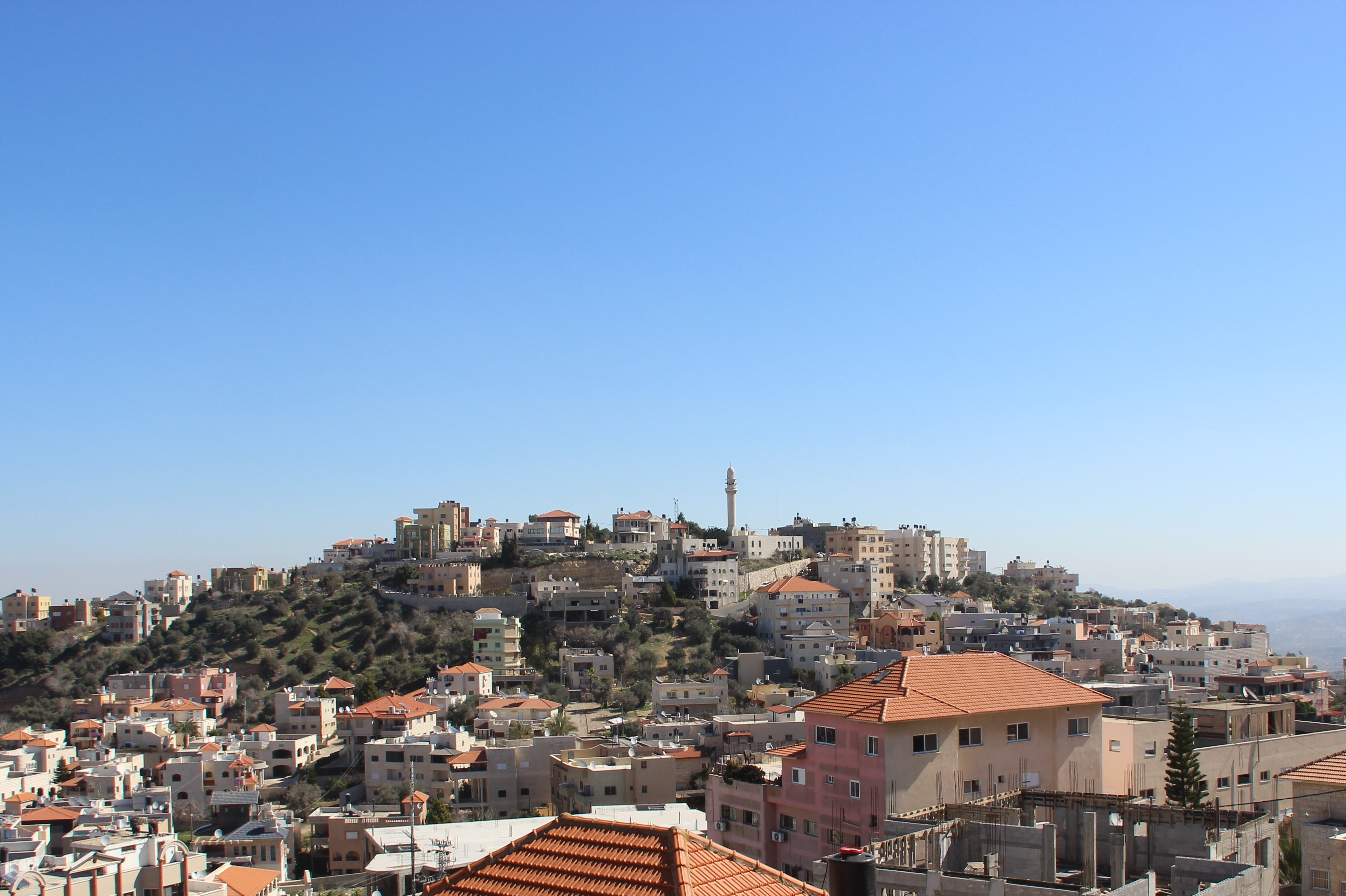 Mount Iskandar - Umm al-Fahm